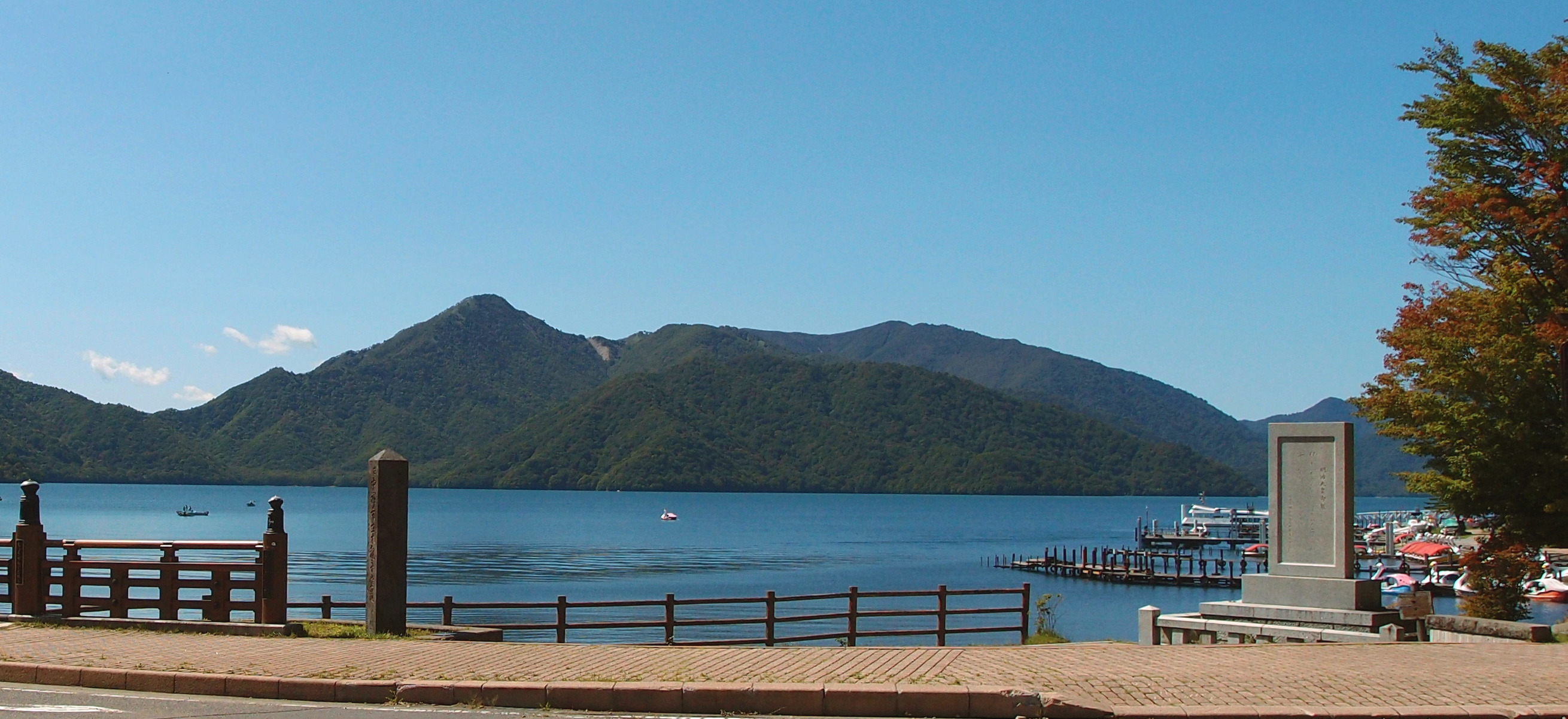 Japan: the lake Chūzenji in Nikkō (Tochigi prefecture), and a stele commemorating the Meiji emperor's visit in 1976.